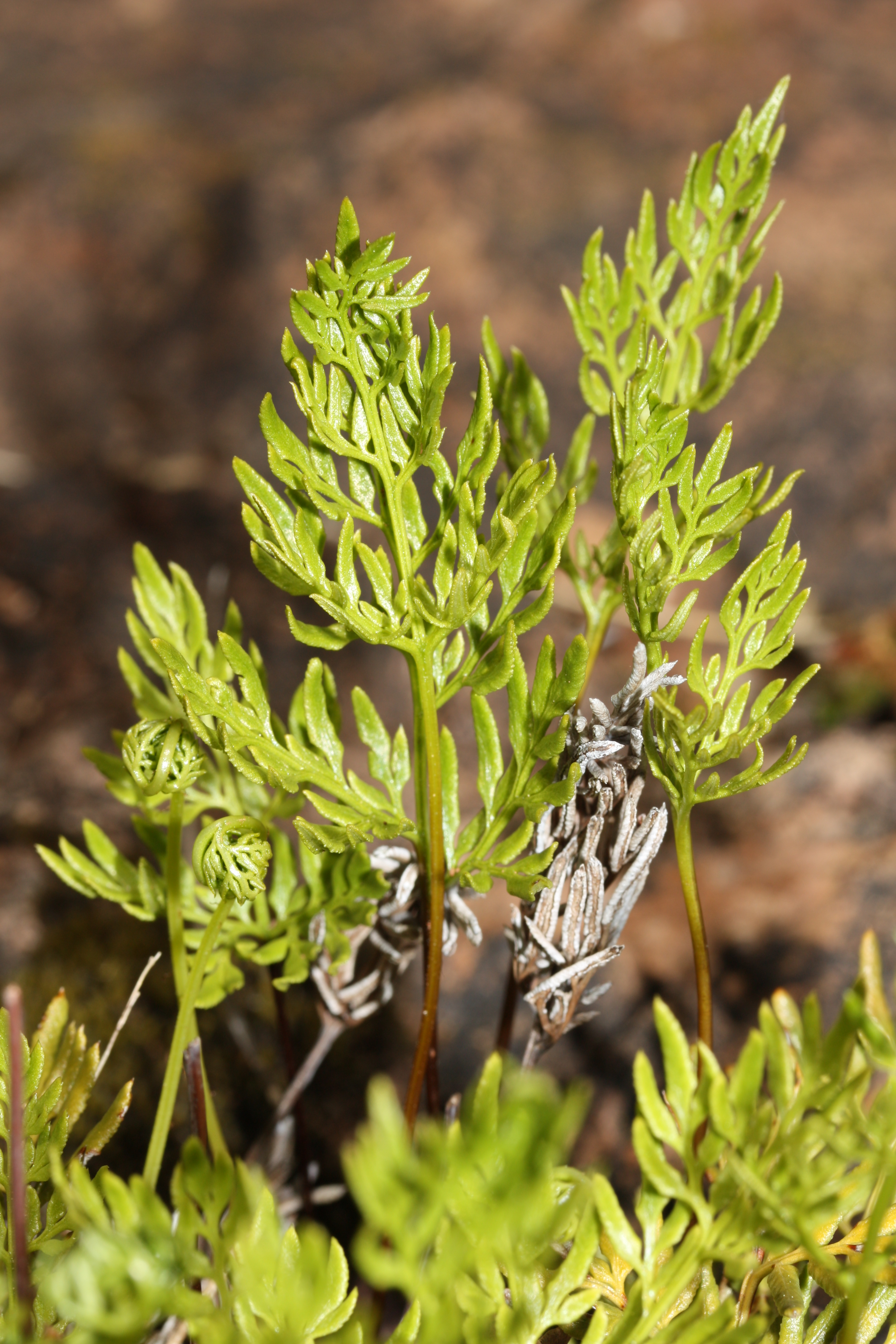 Indian's Dream, Oregon Cliff Brake, Podfern